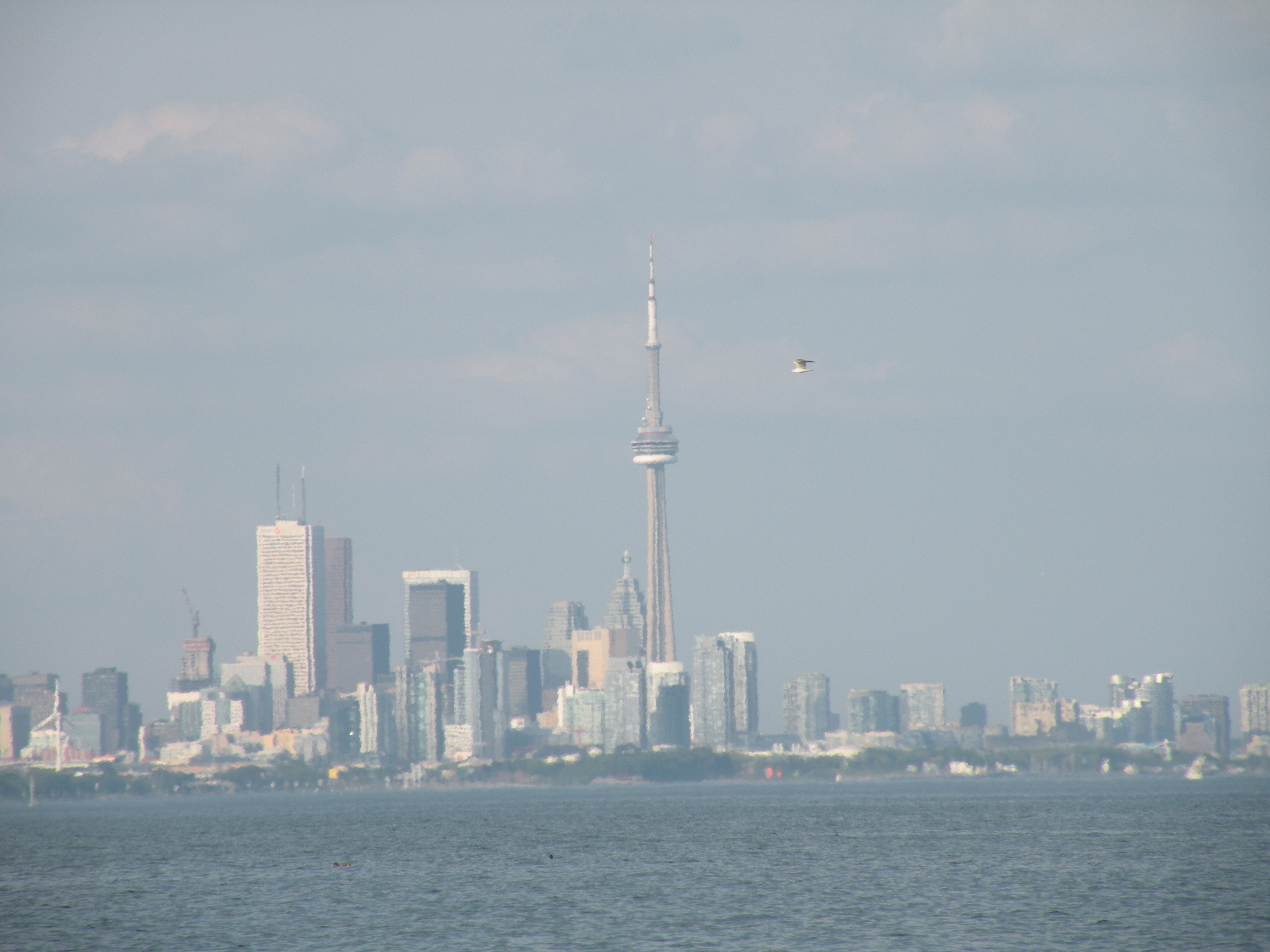 View of downtown Toronto from Colonel Samuel Smith Park